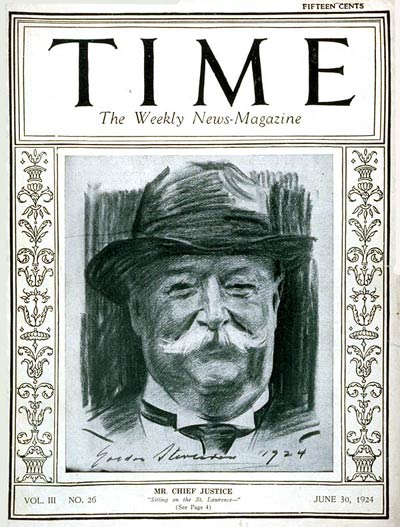 Chief Justice William Howard Taft on Time magazine cover, 1924.